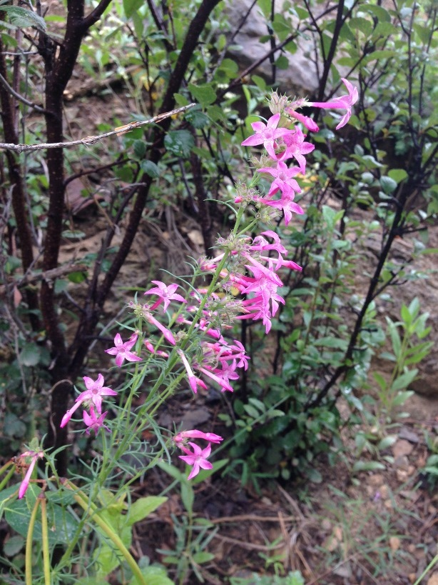 This is a photo of the holy ghost ipomopsis that lives in only one canyon on the Santa Fe National Forest in New Mexico.